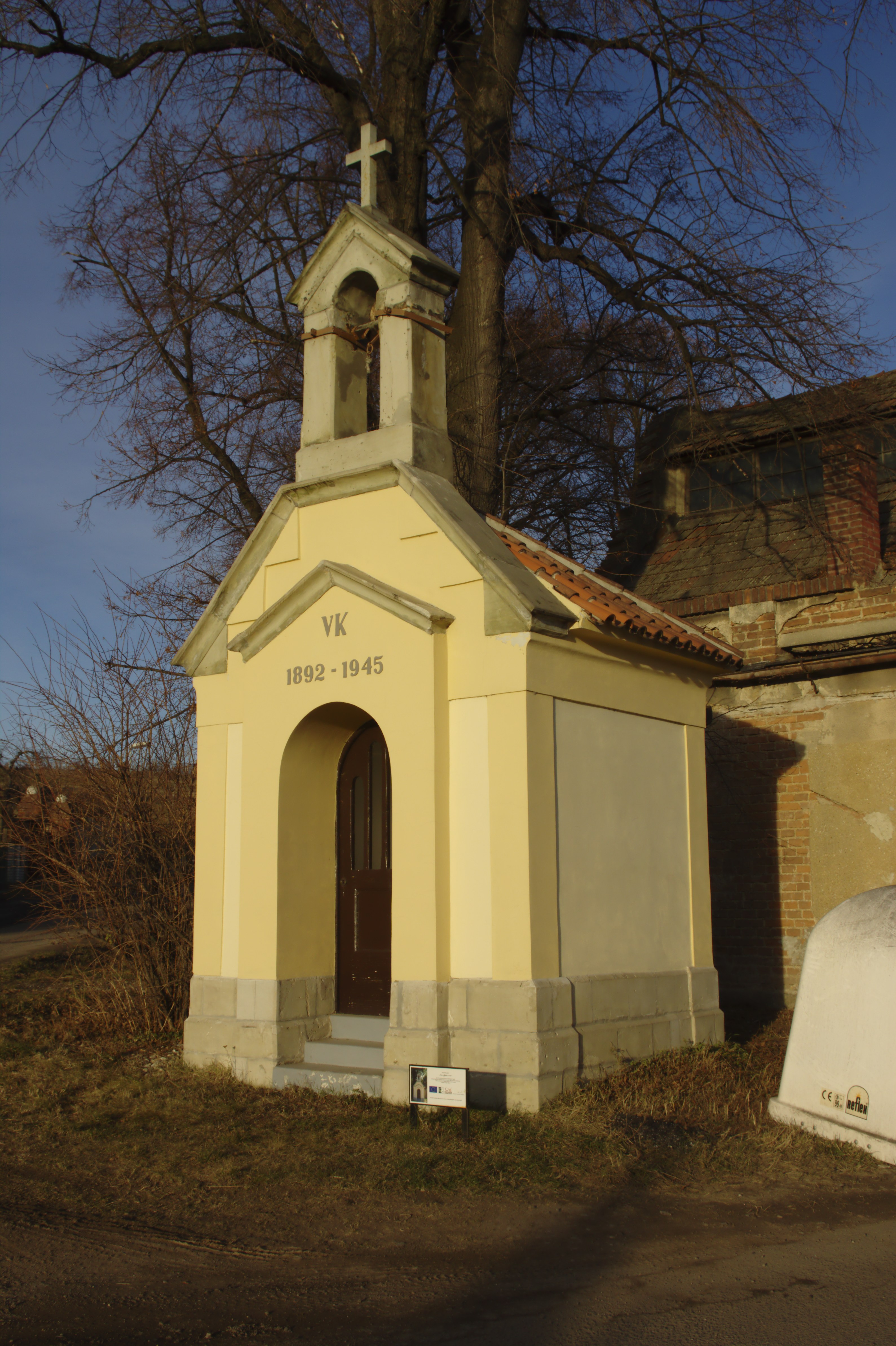 A chapel in Kvíc, Slaný, Central Bohemian Region, CZ